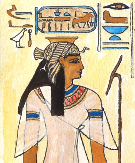 Queen Bint-Anath as depicted in her tomb in the Valley of the Queens.